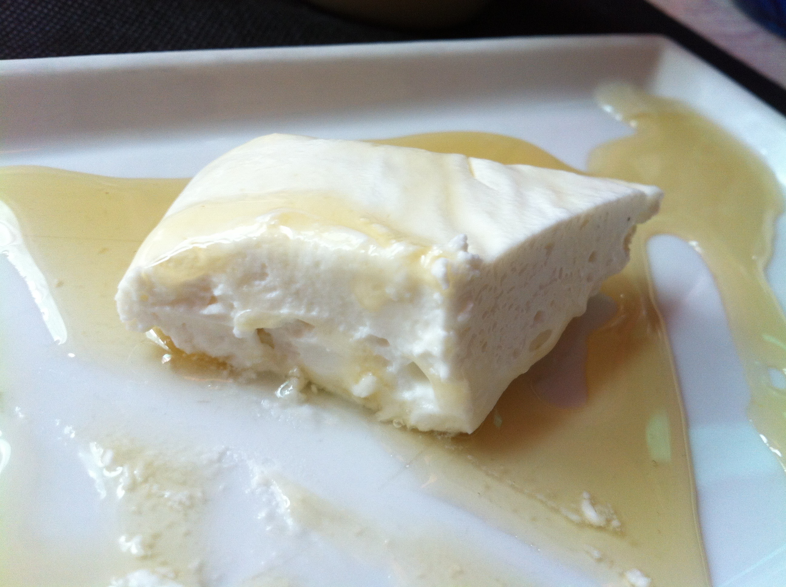 Recuit de drap